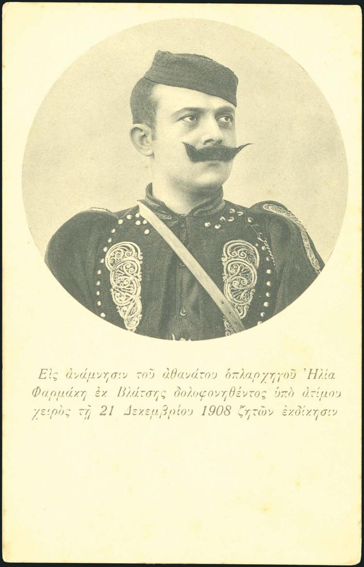 Portrait of greek andart Iliyas Farmakis from Vlaho Blatsa